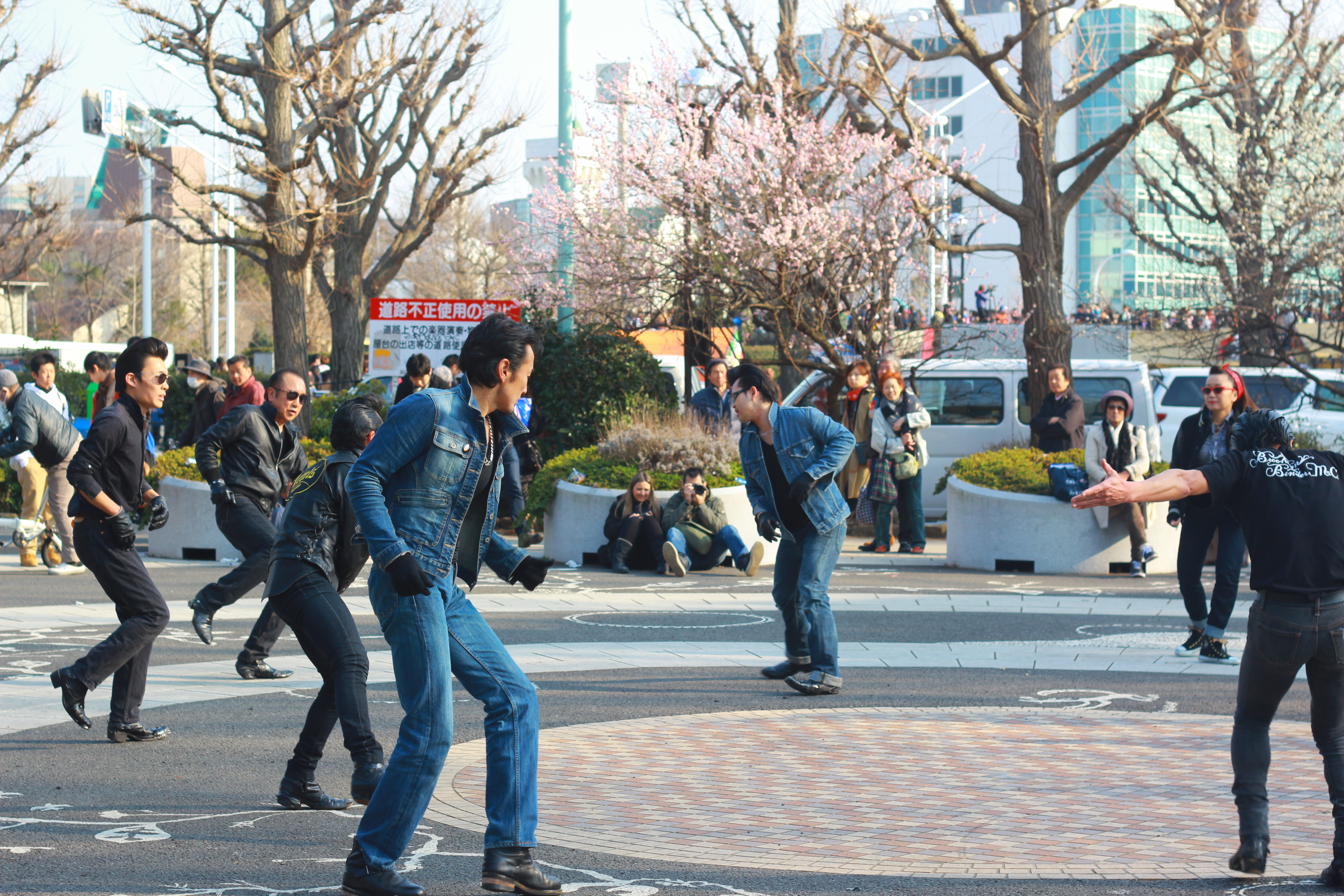 Rockabilly dancers in Harajuku's Yoyogi Park.